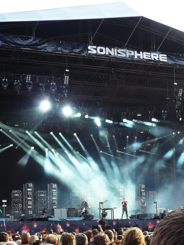 Nine Inch Nails (NIN) concert at Sonisphere 2009 in Knebworth, UK.